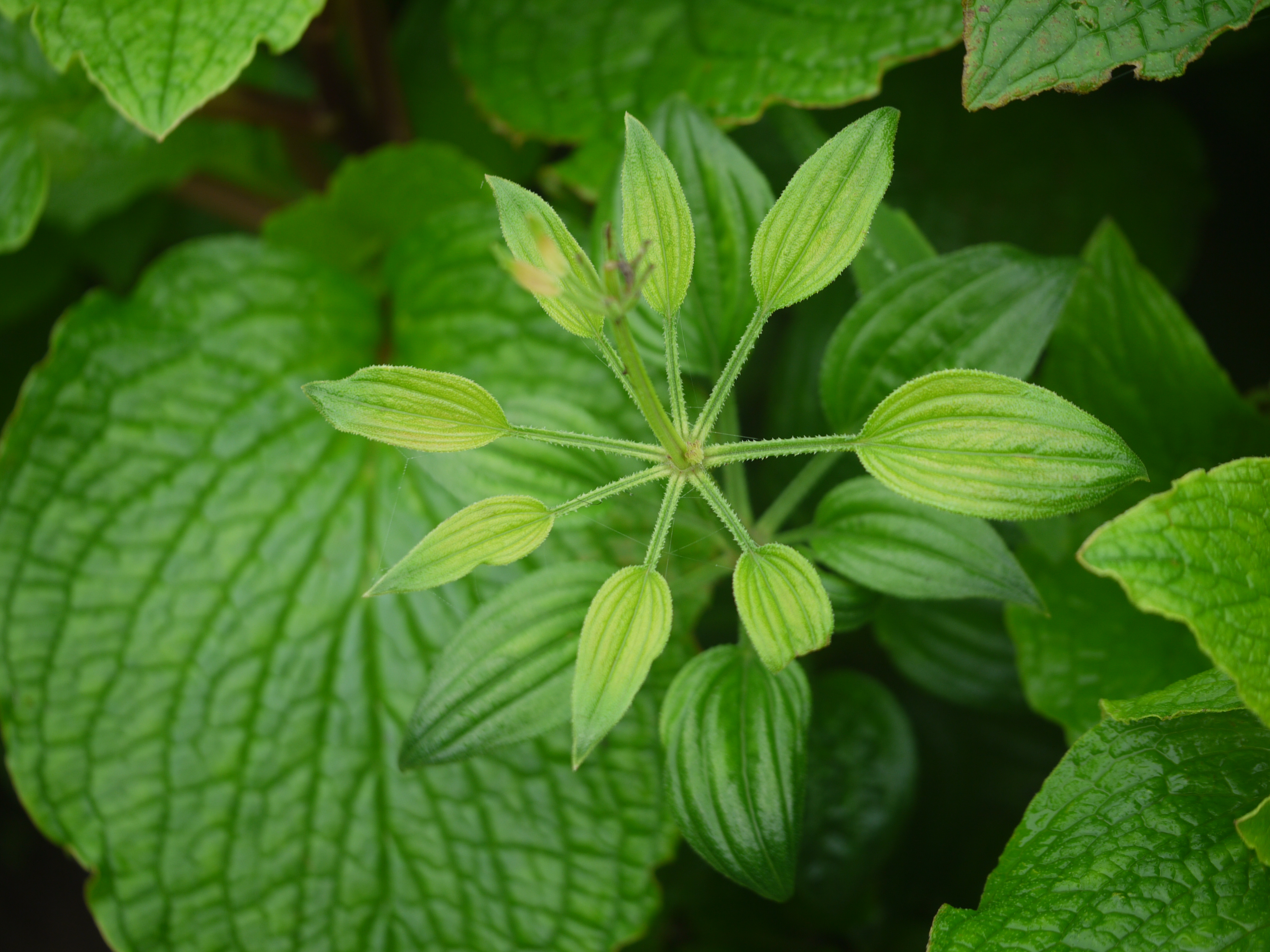 Rubiaceae (madder, bedstraw, or coffee family) » Rubia cordifolia L. ROO-bee-uh -- Latin: ruber (red), referring to the reddish dye obtained from the roots of this plant ... Dave's Botanary kor-di-FOH-lee-uh -- heart-shaped leaf ... Dave's Botanary commonly known as: common madder, Indian madder • Assamese: মজাঠি majathi • Gujarati: મજીઠ majitha • Hindi: मजीठ majith • Kannada: ಮಂಜಿಷ್ಠ manjishta, ಸಿರಗತ್ತಿ siragatthi, ಸೋಮಲತೆ somalathe • Kashmiri: दण्डू dandu, मज़ेठ् mazait, फहःर् गास phahar-gas • Konkani: इटारी itari • Malayalam: മഞ്ചട്ടി mancatti • Marathi: इट्टा itta, मंजिष्ठ manjishta • Nepali: मजिठो majito • Oriya: ମଞ୍ଜିଷ୍ଠା manjishta • Punjabi: ਕਾੱਠਾ kattha, ਮਜੀਠ majitha • Sanskrit: मञ्जिष्ठा manjishtha • Tamil: மஞ்சிட்டி mancitti • Telugu: మంజిష్ఠ manjishta • Tibetan: brtsod • Tulu: ಮಂಜಿಷ್ಠ manjishta • Urdu: مجيٿهہ majith Distribution: Europe, (sub)tropical Africa, Asia References: Flowers of India • Flora of China • eFlora • Wikipedia • ENVIS - FRLHT